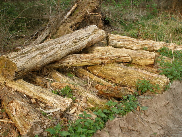 Woodland management This pile of logs is decaying nicely. There were bees buzzing around it and disappearing inside so it was obviously a good insect home.